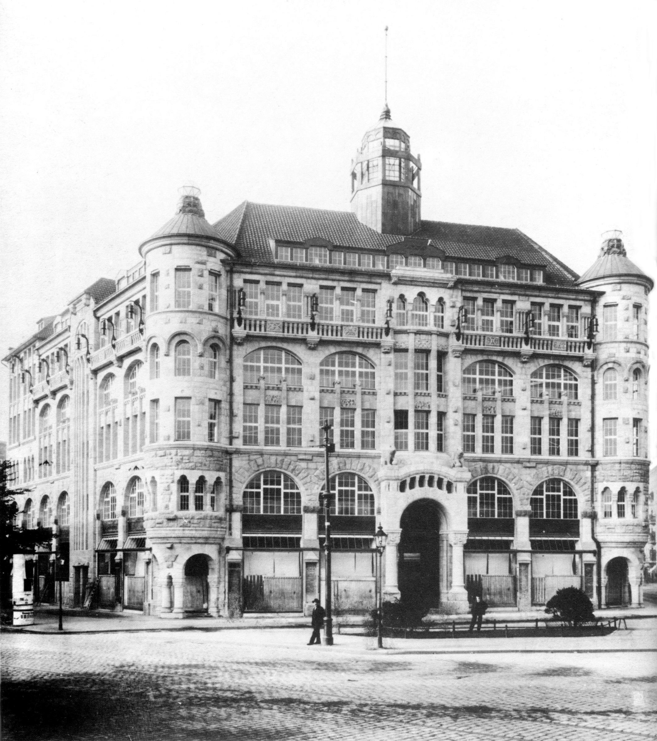 Warehouse Jandorf, Kottbusser Damm in Berlin First private building in Berlin made of ferroconcrete, since 1927 Hermann Tietz, since 1934 Warenhaus Union (destroyed in World War II, later Bilka)